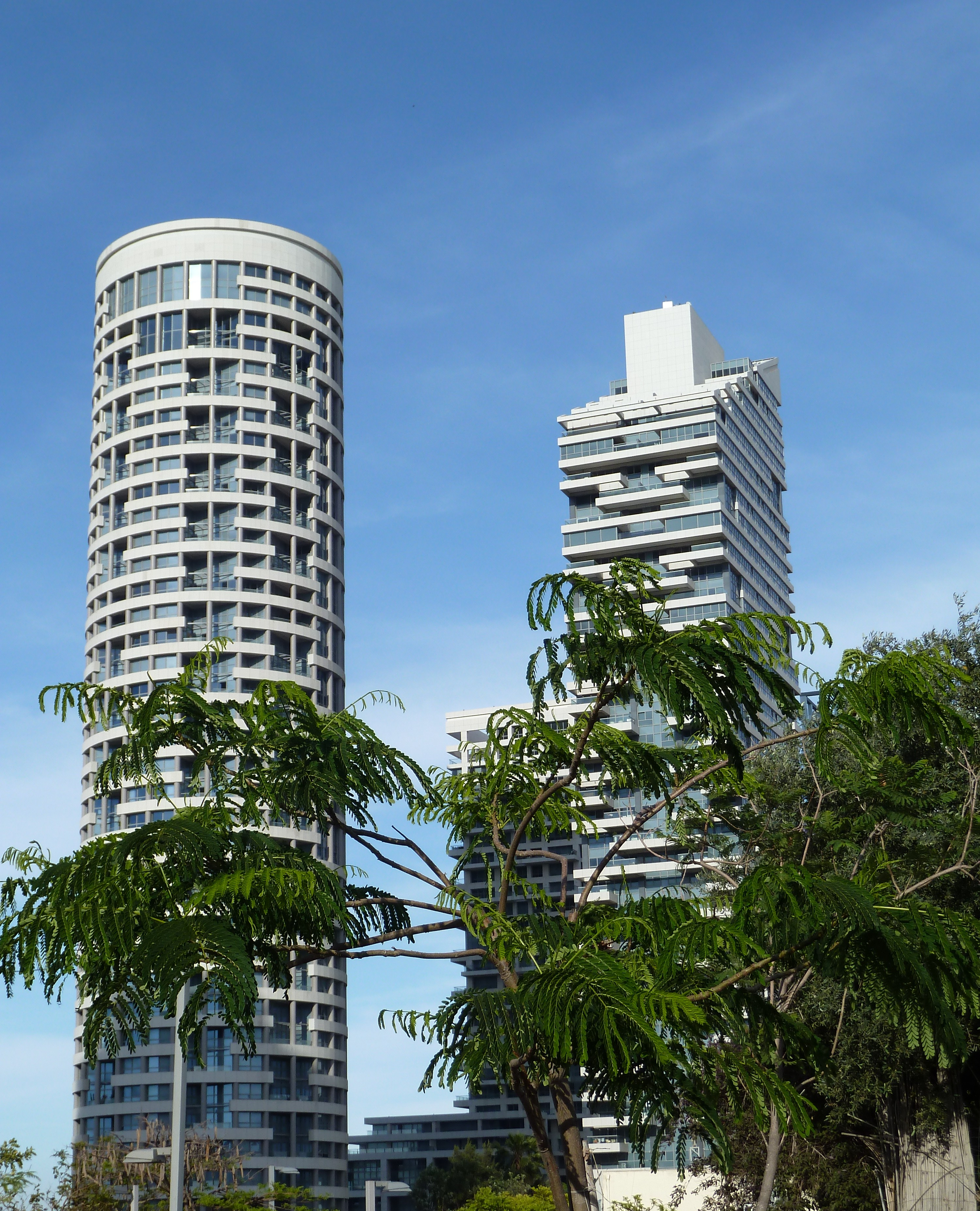 Yoo Towers, Tel Aviv, Israel